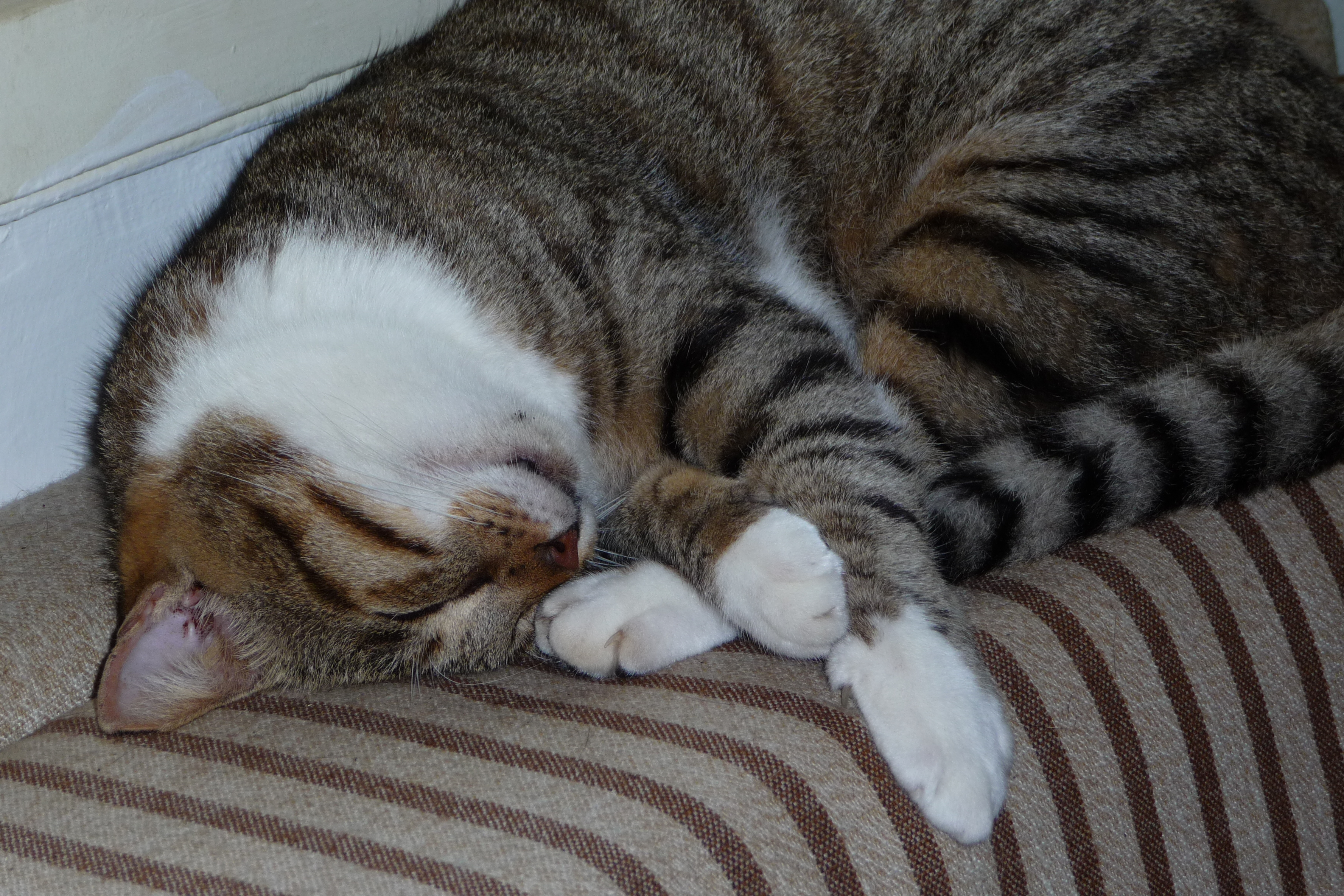 Beit Oren is a kibbutz in northern Israel. It falls under the jurisdiction of Hof HaCarmel Regional Council.